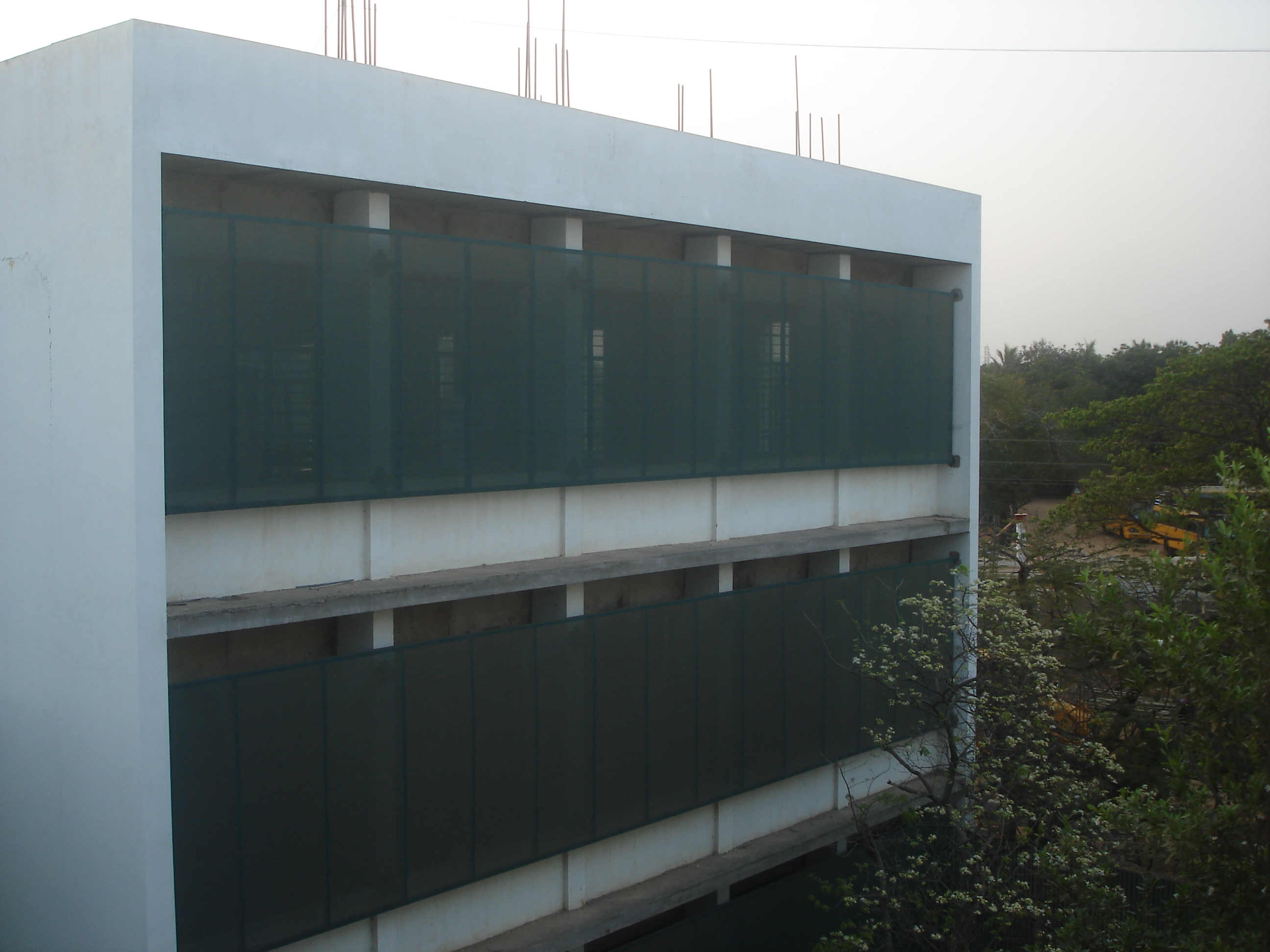 This image shows the newly built Lab Block of TVSMHSS.